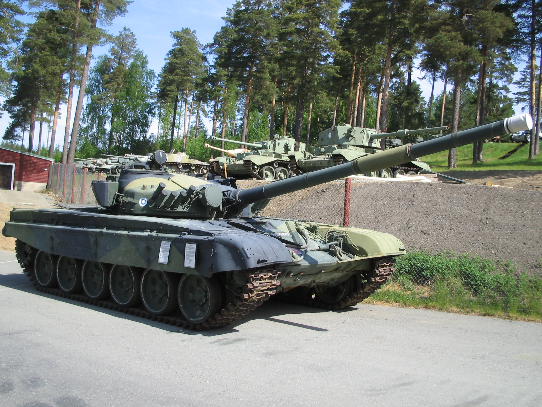 T-72M1 in Parola tank museum